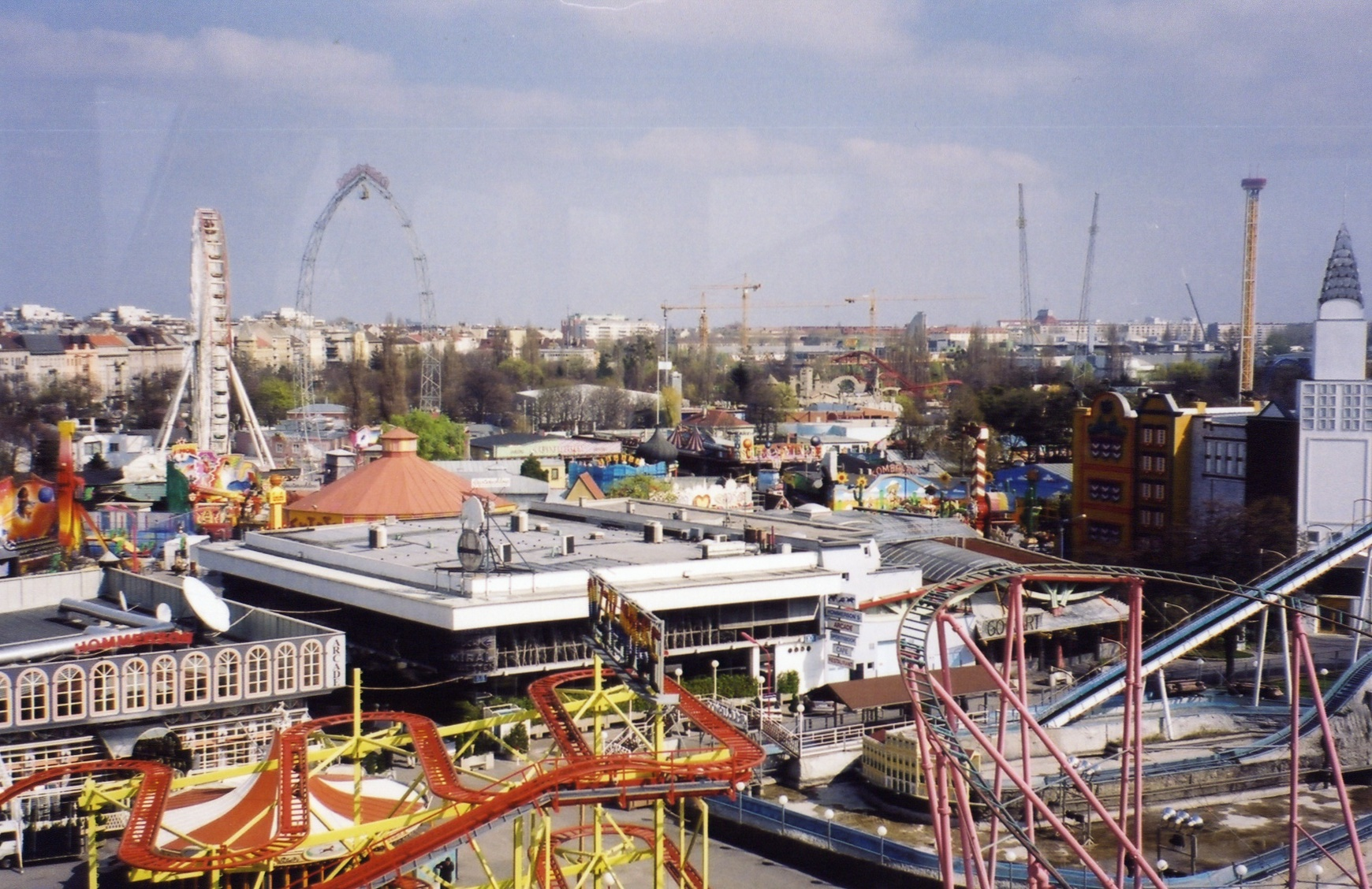 View from Wiener Prater